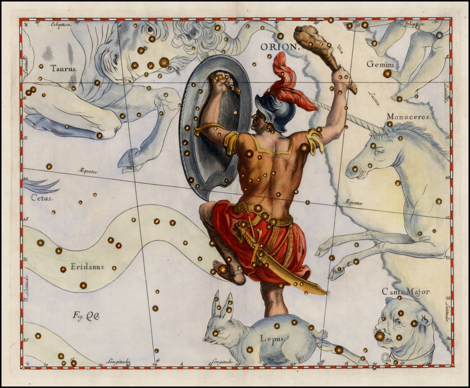 Johannes Hevelius drew the Orion constellation in Uranographia, his celestial catalogue in 1690. The view is mirrored to match the view through a telescope.